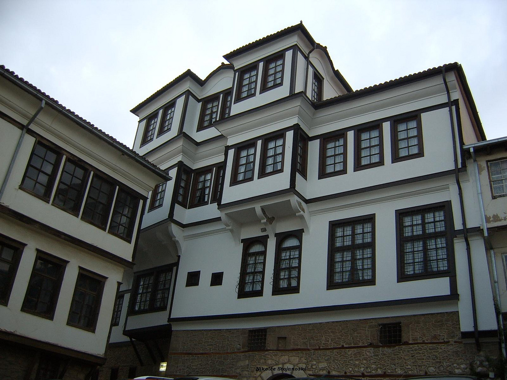 The house of Robevci- Macedonian traditional architecture.